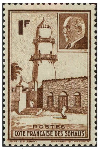 Stamp from Vichy France with portrait of head of state Marshal Pétain issued for French Somaliland in 1941. The Vichy government issued postage stamps for all the French colonies, including those that it never controlled.